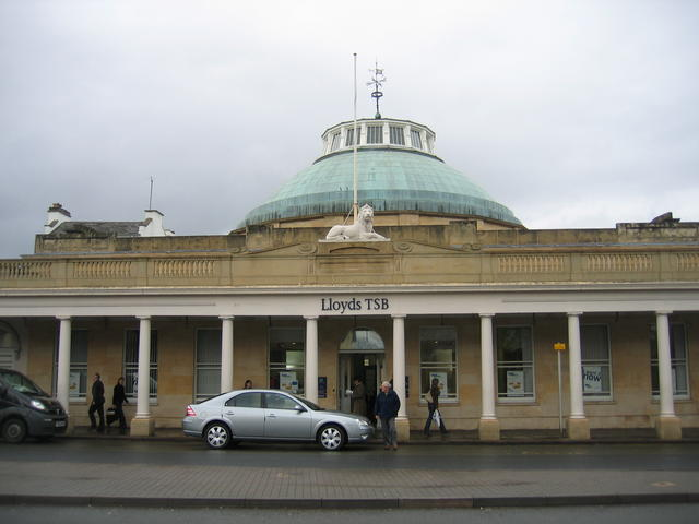 Montpellier Spa. This building by J. B. Papworth was constructed in 1817 and housed the Montpellier Spa. It housed a bank from 1882 and through the 20th century. The rotunda 288705 is a later addition from 1826.